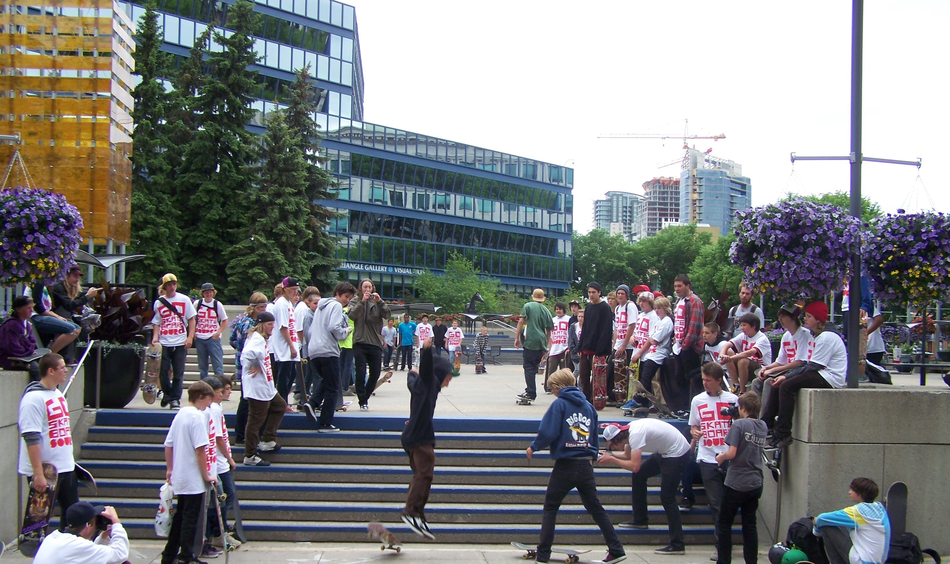 People celebrated "Go Skateboarding Day" outside City Hall in downtown Calgary, Alberta, Canada.